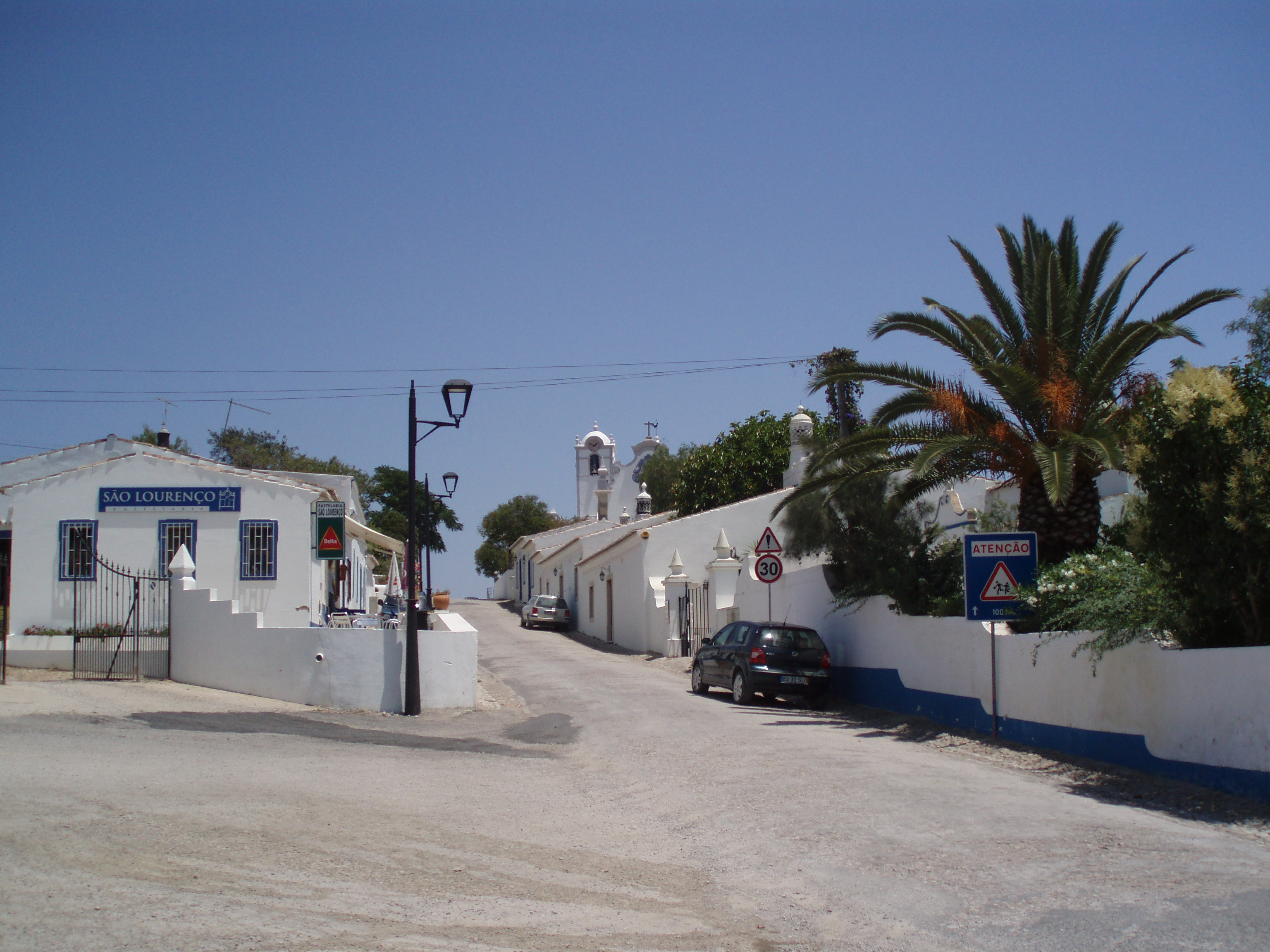 A street in Almancil. In the back, the Saint Lawrence church is visible.